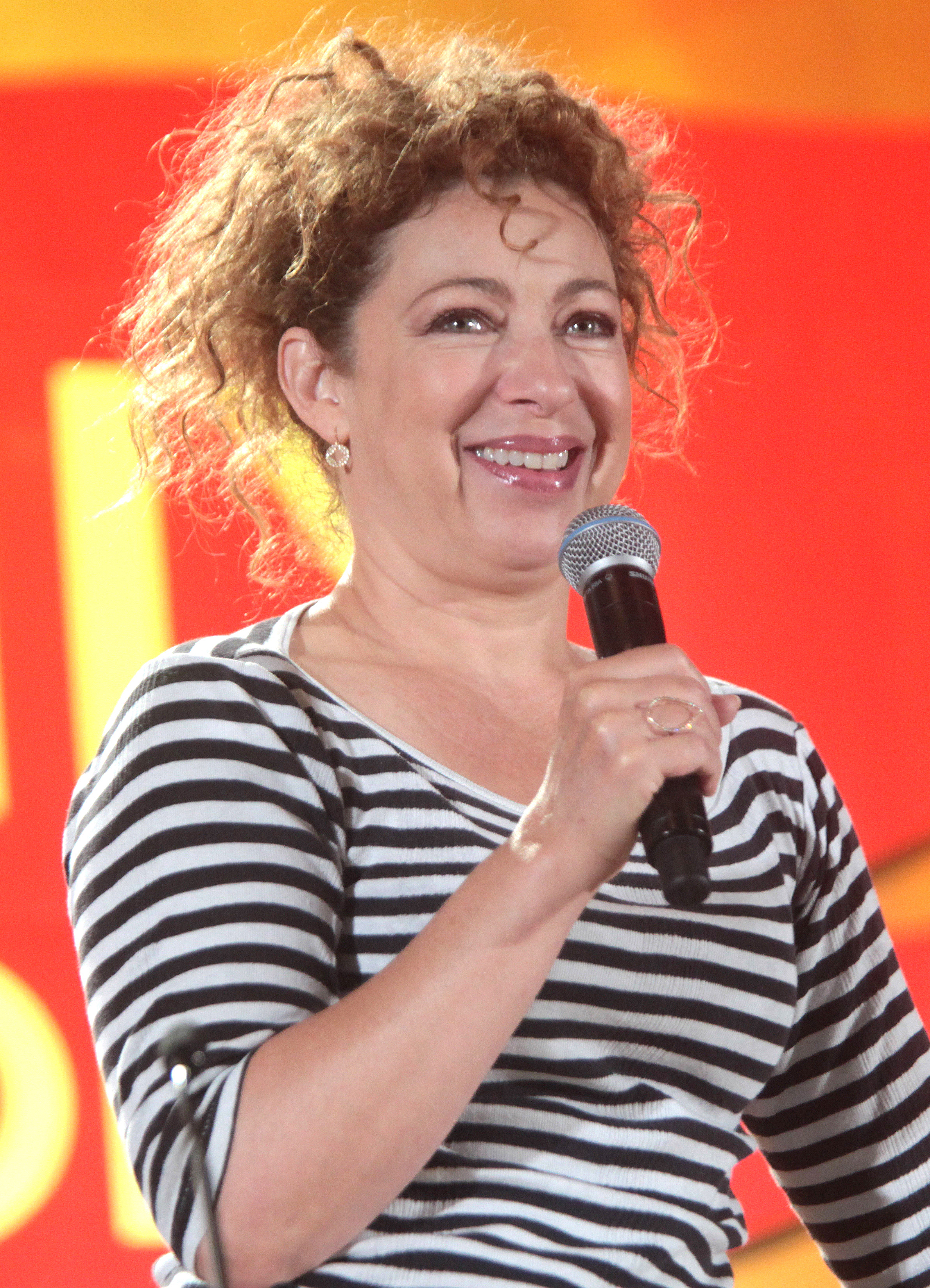 Alex Kingston speaking at the 2016 Phoenix Comicon in Phoenix, Arizona.